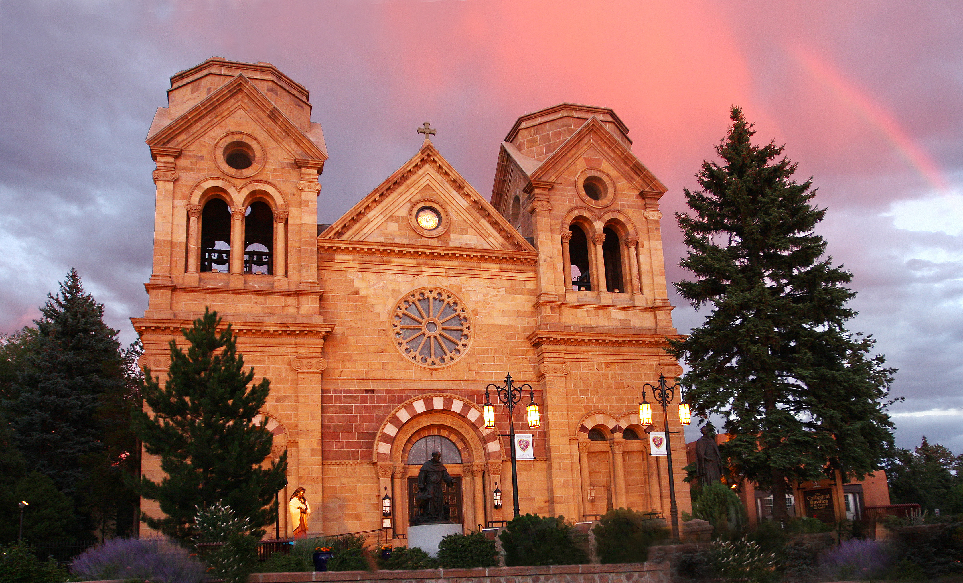 131 Cathedral Place Santa Fe, NM 87501